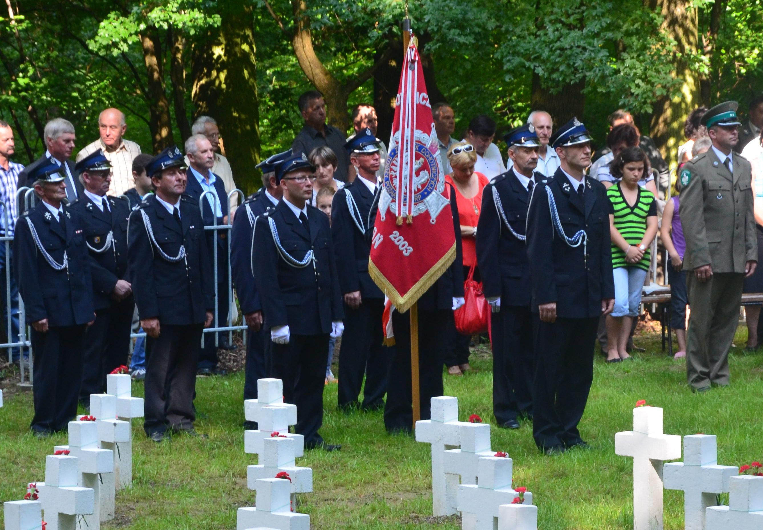 World War I Cemetery in Mymoń